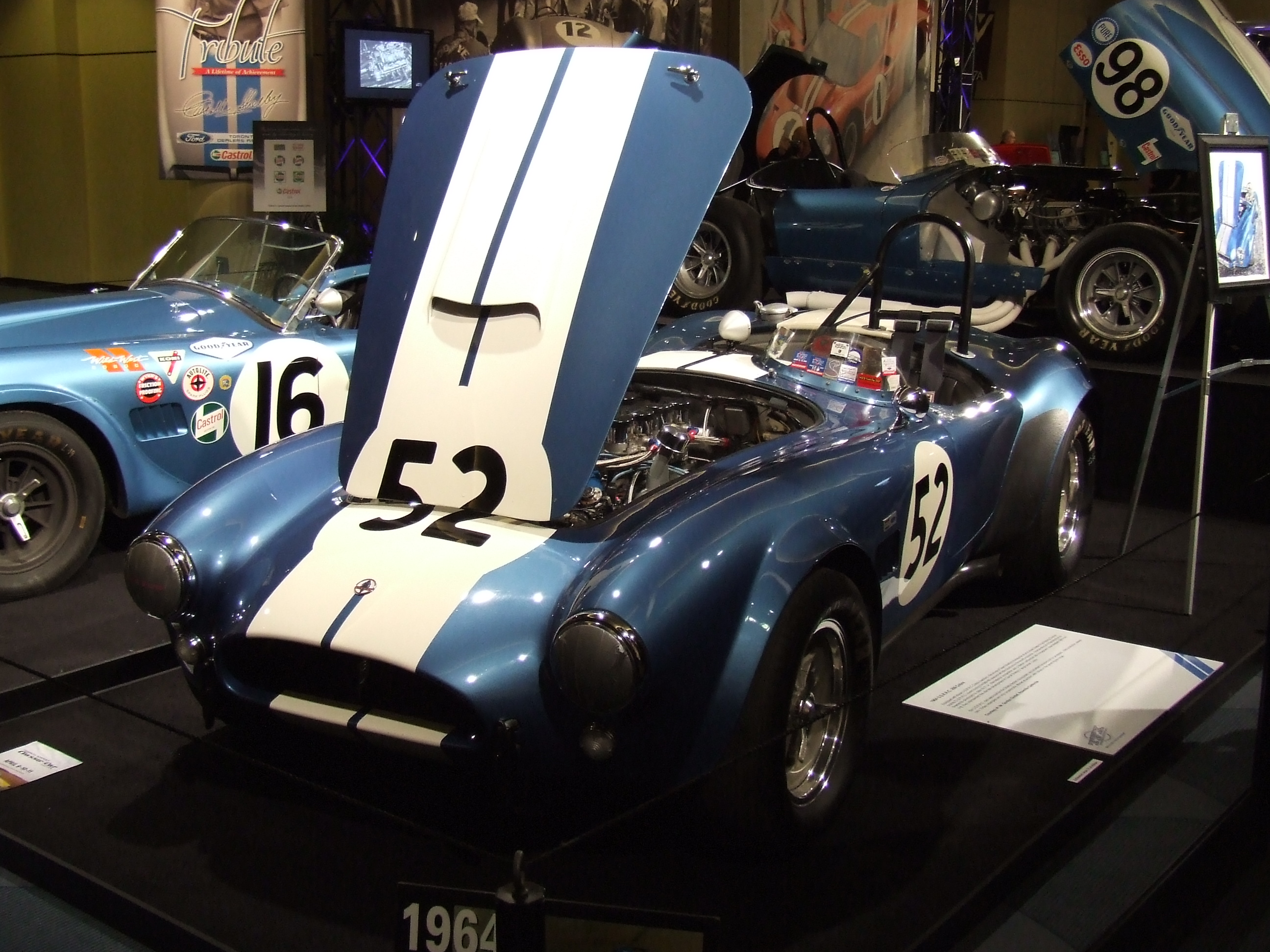 Shelby AC Cobra, one of six 289 USRRC roadsters, 2010 Canadian International AutoShow.